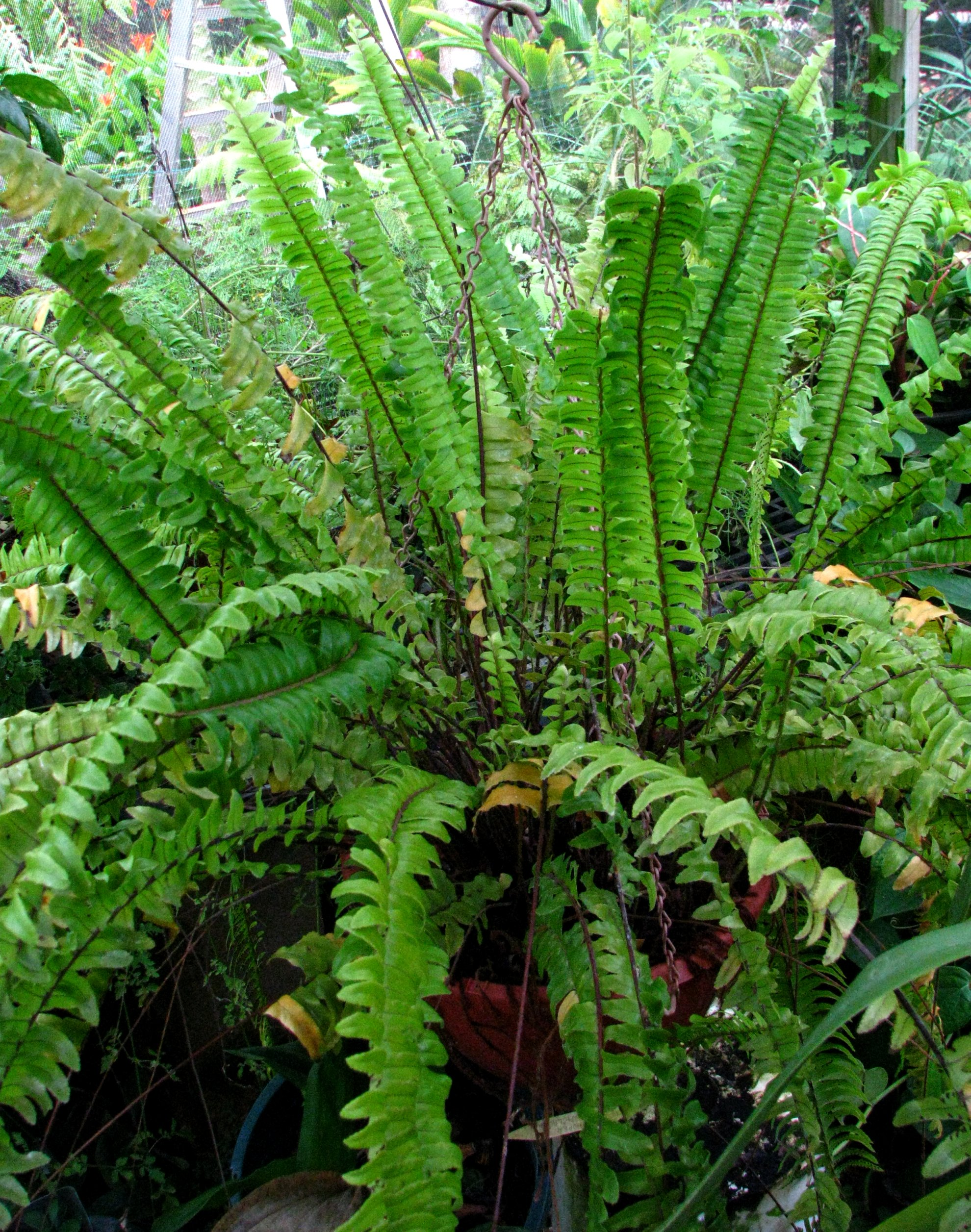 ʻŌkupukupu or niaʻaniʻau Lomariopsidaceae (Nephrolepidaceae) Subspecies is endemic to the Hawaiian Islands Oʻahu (Cultivated) The native Hawaiian version of the 'Boston' fern.